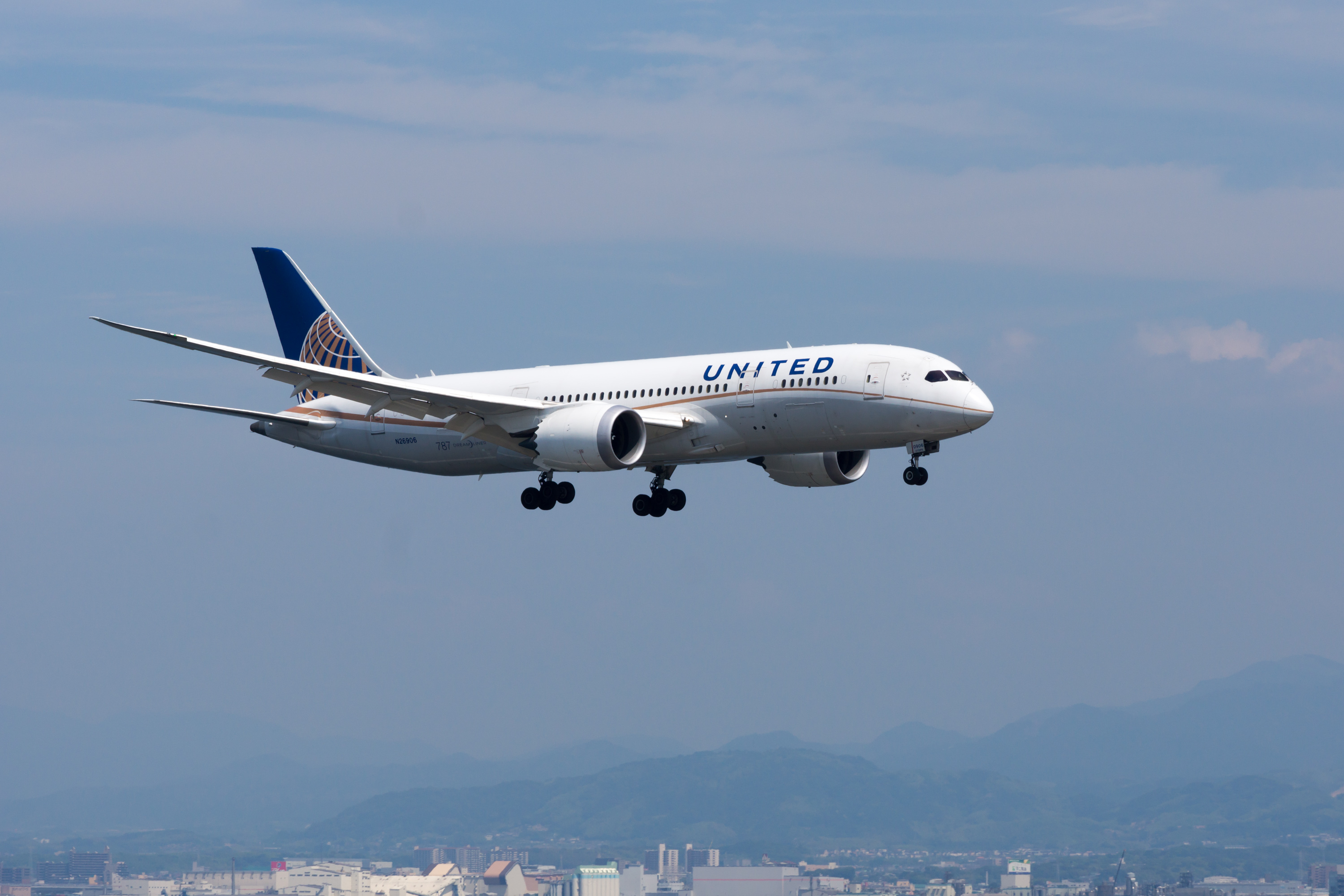 United Airlines / ユナイテッド航空 Boeing 787-822 N26906 UA35, Arrived from San Francisco Osaka Kansai Int'l Airport